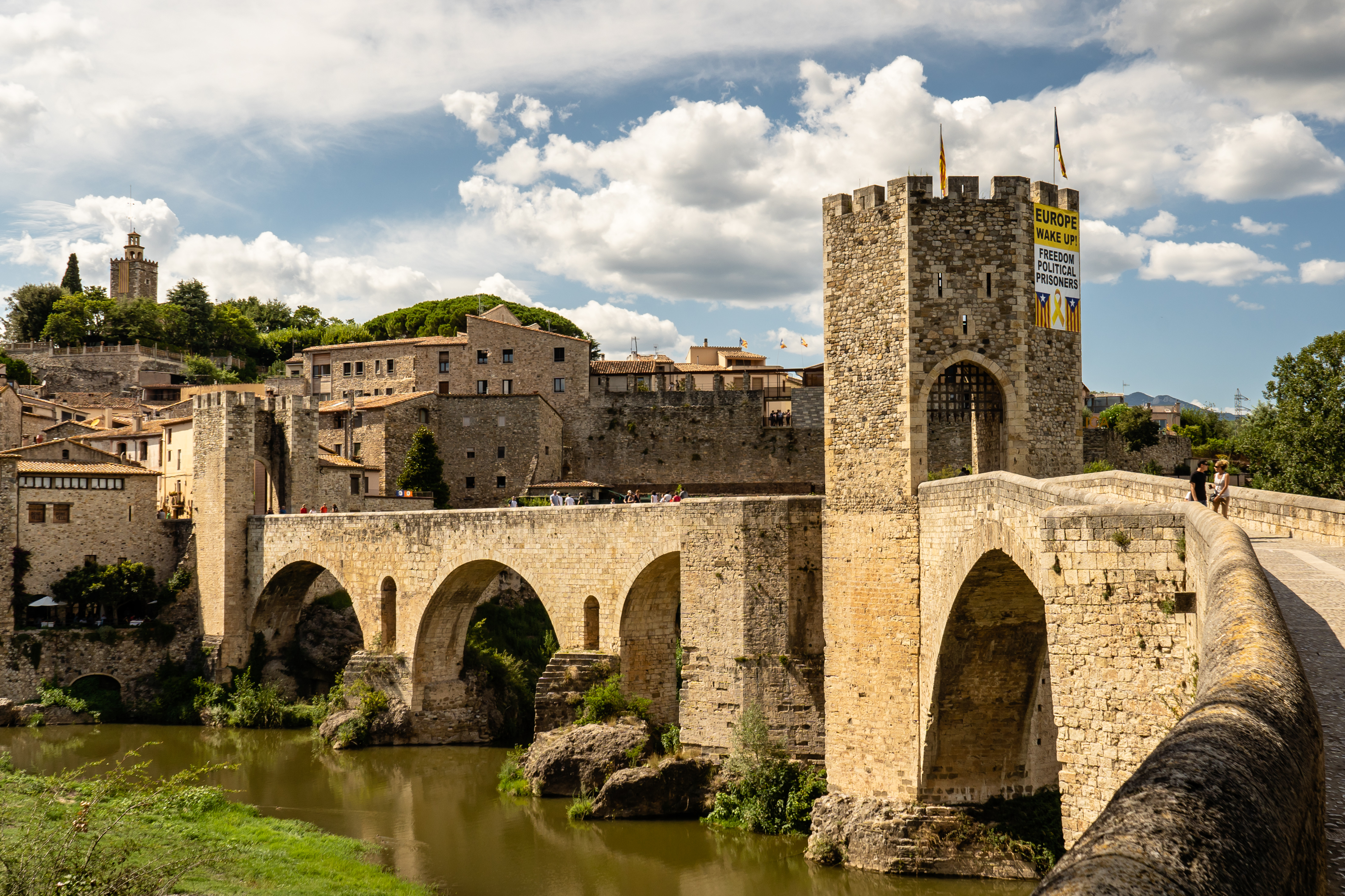 Fortified medieval bridge protects the entrance to the town of Besalú in Catalonia.